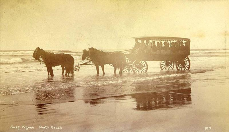 Wagon on North Beach (now called Long Beach), in Pacific County, Washington, circa 1892